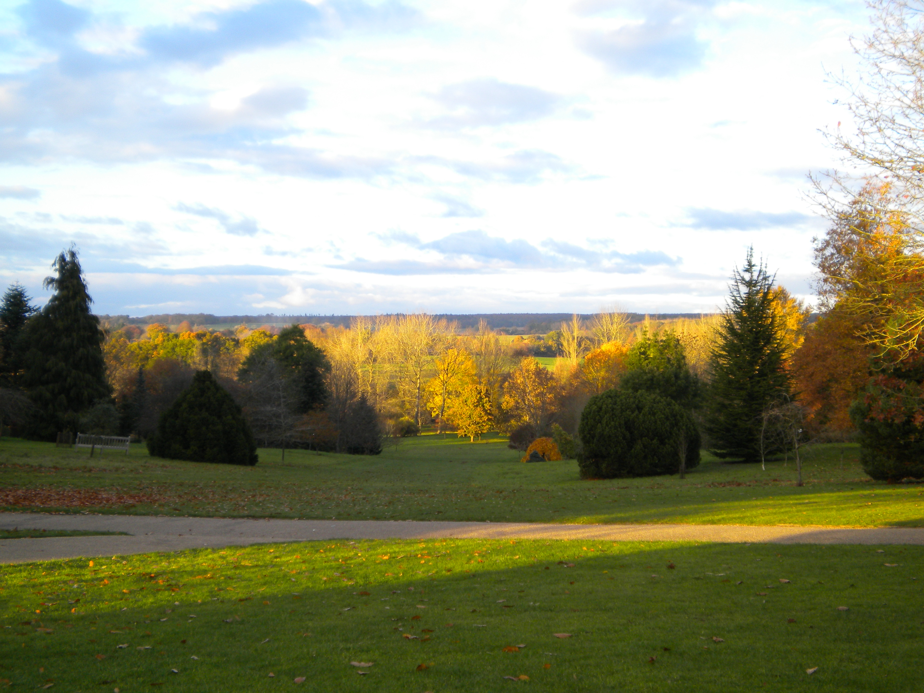 Autumn view from the visitor centre at the Sir Harold Hillier Gardens near Romsey, Hampshire, England.